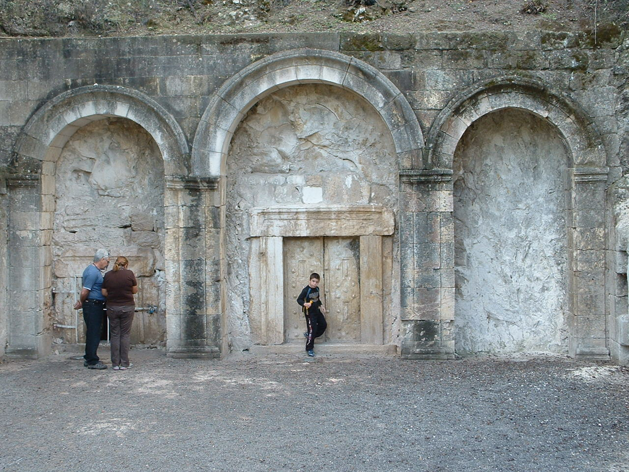 front of rabbi Yehda Hanasi family cave